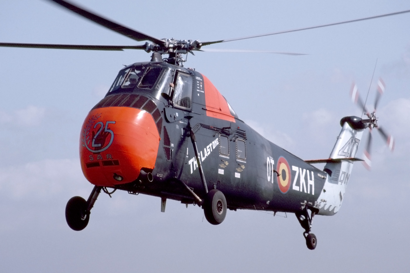 Koksijde, 18 July 1986. One of the last flights of the last Belgian Sikorsky S-58 during the open door at Koksijde. B8 (callsign OT-ZKH) was built in January 1962 by Sud Aviation (France) and retired in July 1986. It's preserved at the gate.Koksijde, 18 July 1986.